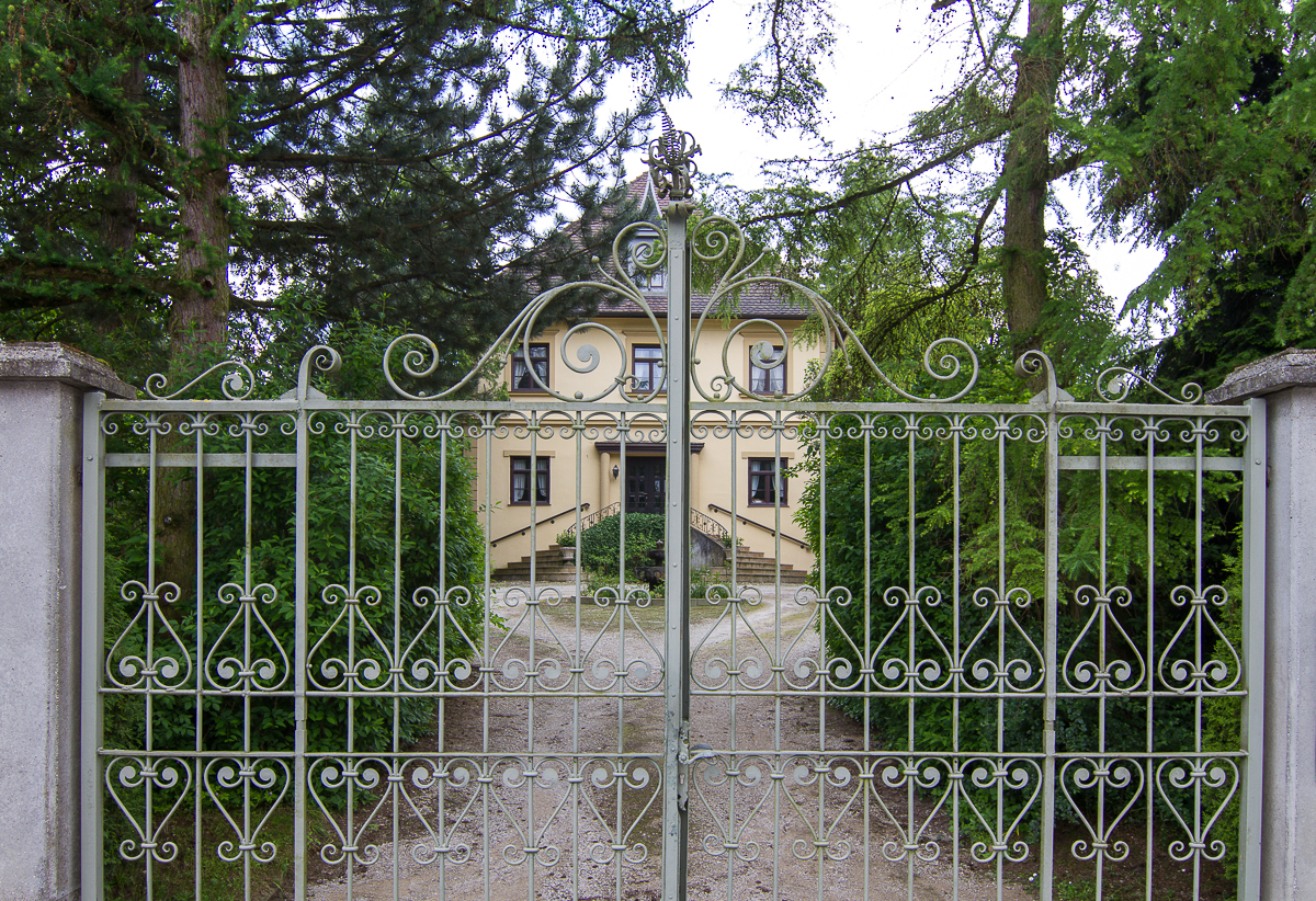 This is a photograph of an architectural monument.